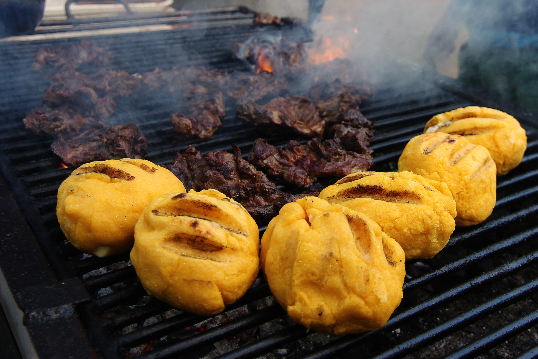 Shepherd's bulz and pastrami on the grill